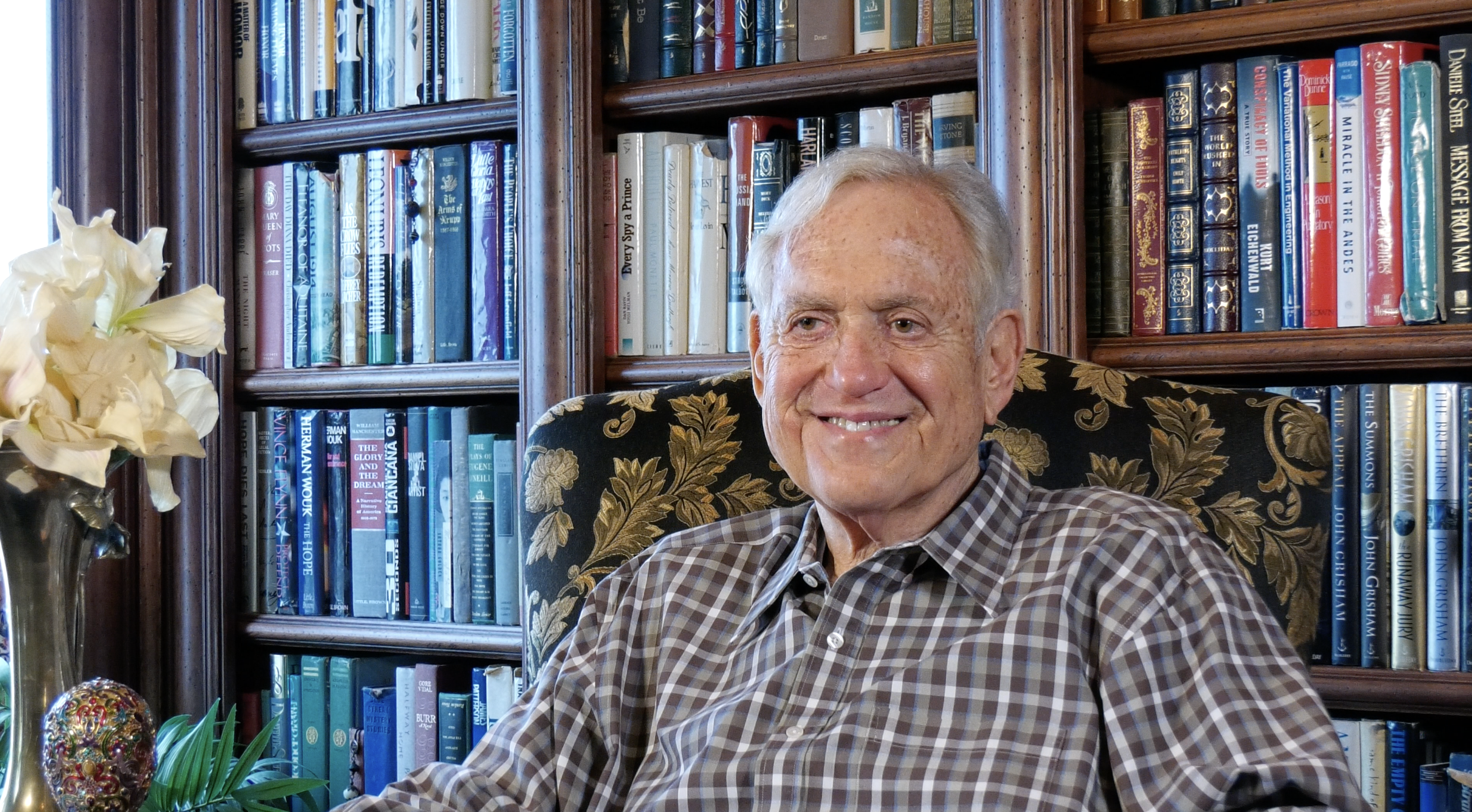 Arthur Schechter in his interview by Sam Hashemi at his Houston residence